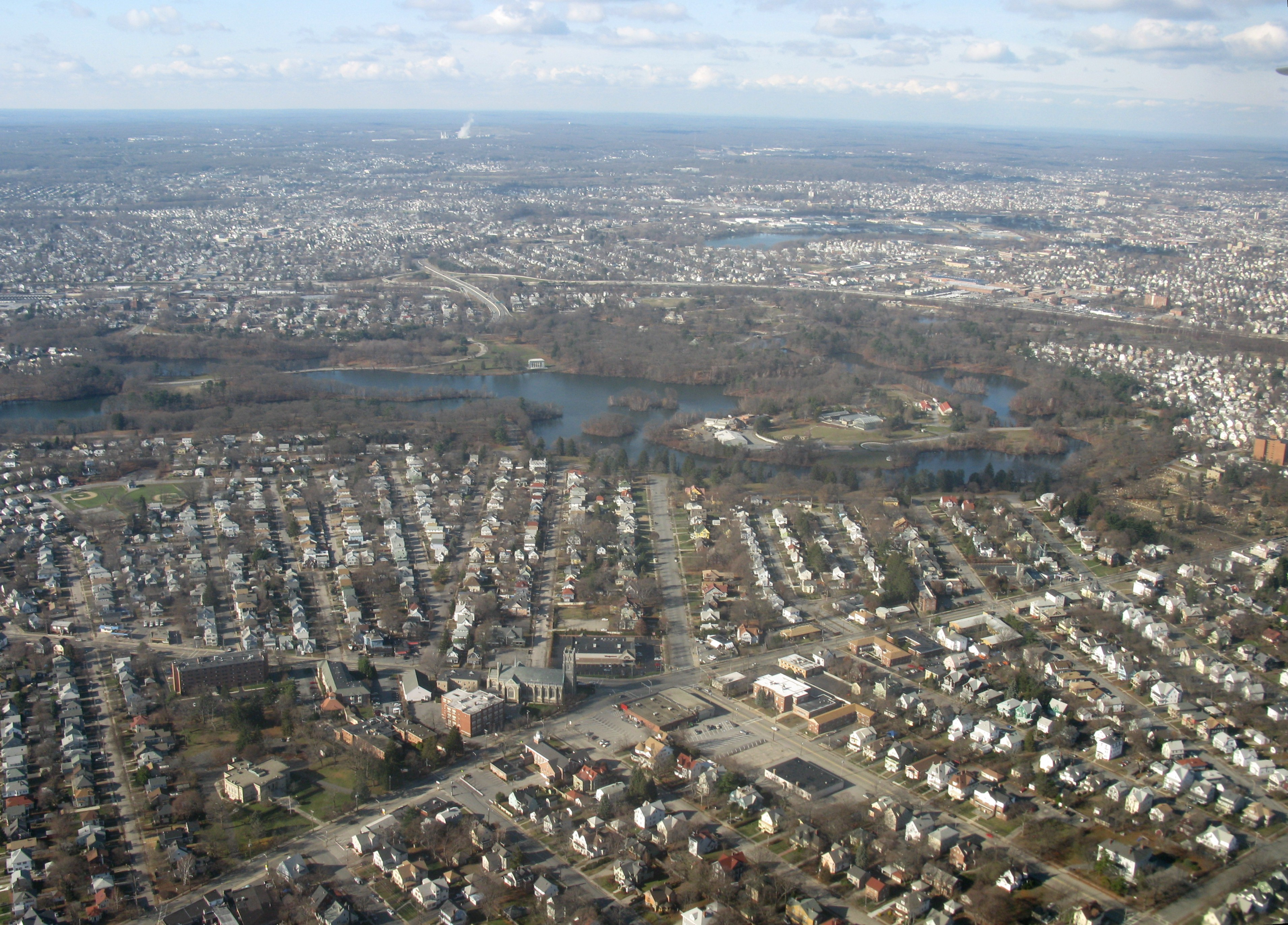 aerial view of Cranston, Rhode Island